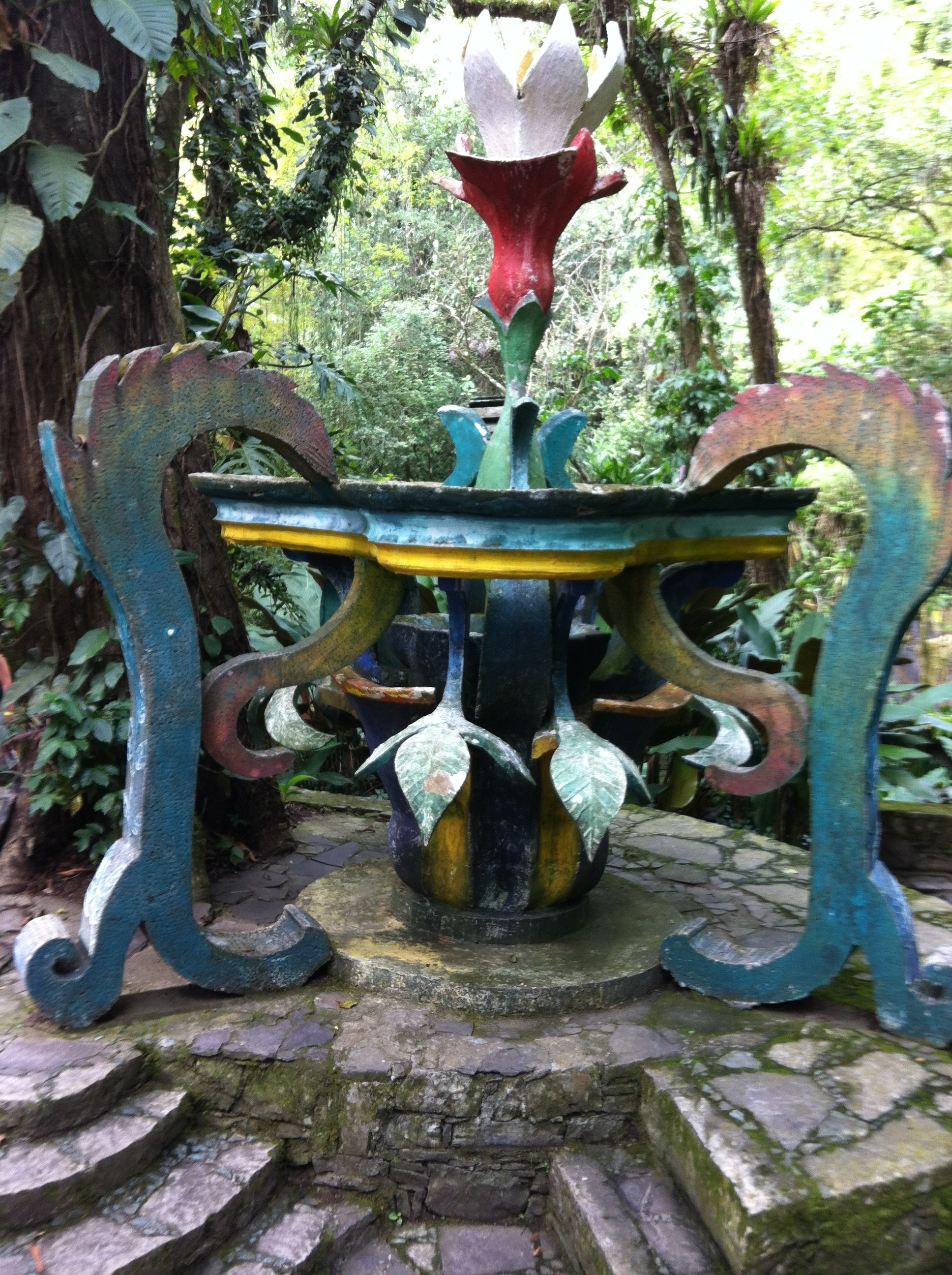 Sculpture welcomes orchids hall in the castle surrealist Edward James in Las Pozas, Xilitla, State of San Luís Potosí